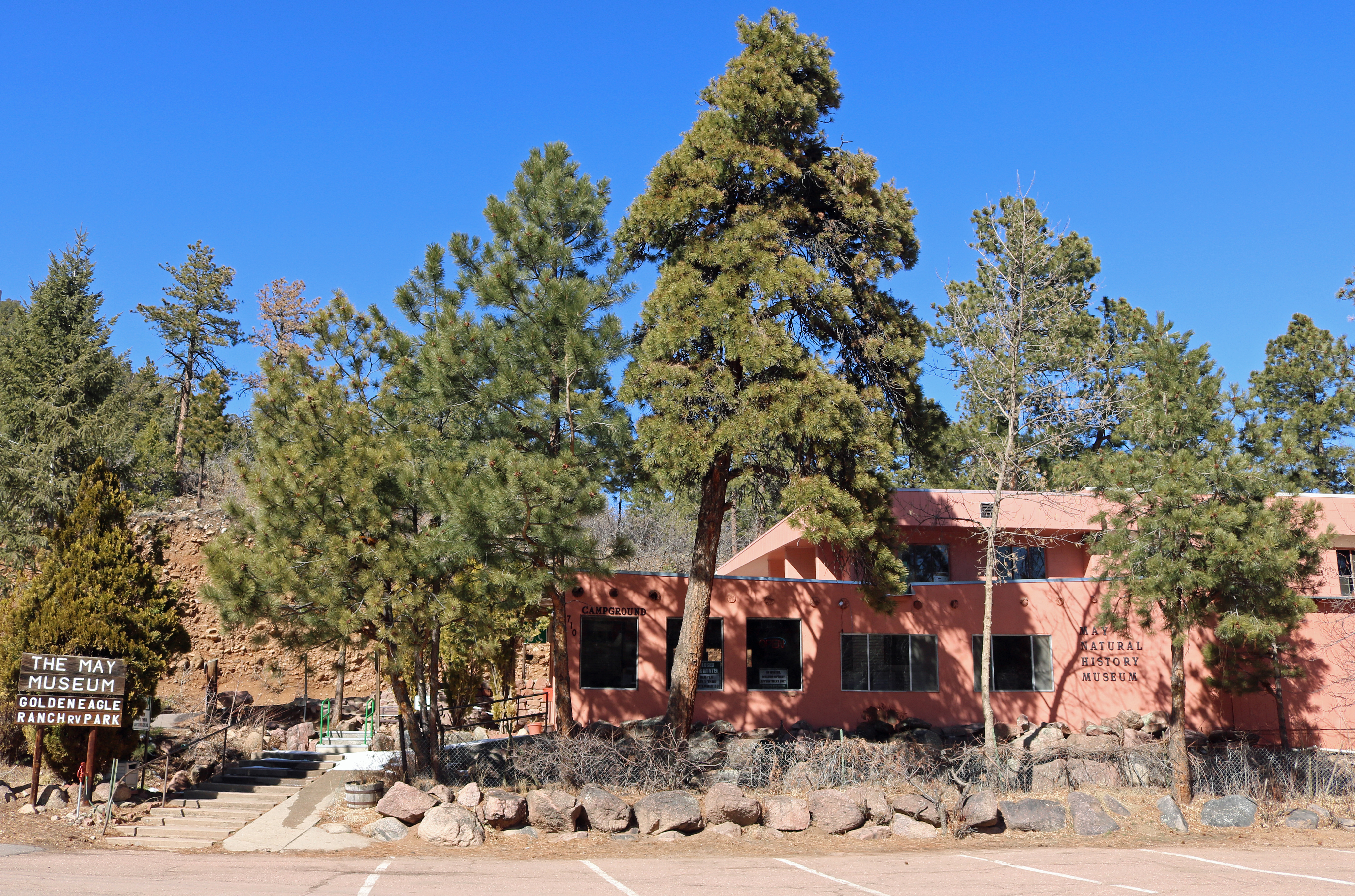 The May Natural History Museum, located at 710 Rock Creek Canyon Road in Rock Creek Park, Colorado. Rock Creek Park is a census-designated place in El Paso County, Colorado.